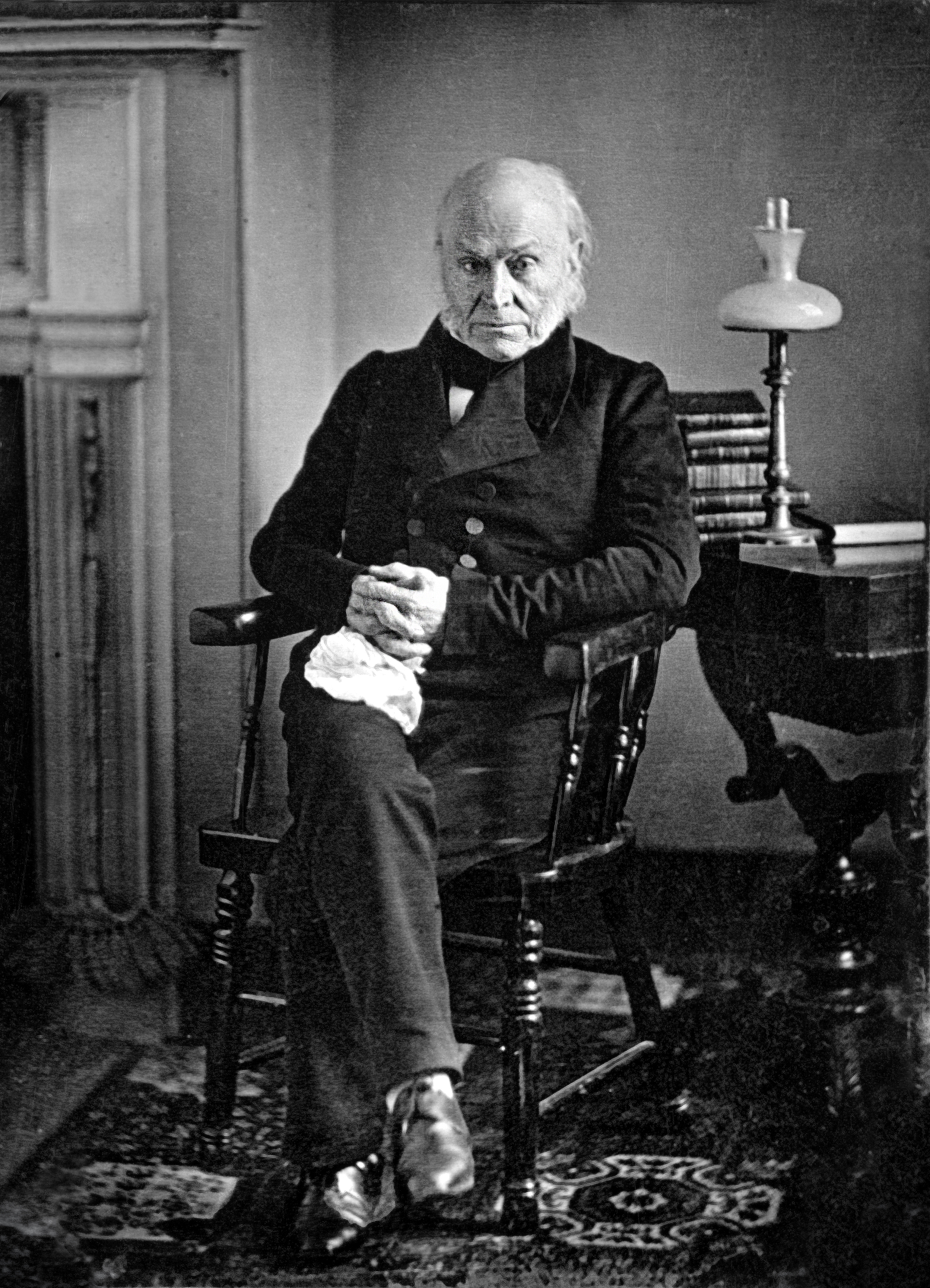 John Quincy Adams. Copy of 1843 Daguerreotype by Philip Haas. This is apparently a copy by Southworth & Hawes of a lost original daguerreotype by Phillip Haas (active 1839-57), ca. 1843. Oliver (1970a) discusses the Metropolitan Museum dagurreotype as by Southworth & Hawes and two related prints that clearly attribute it to Haas. Marder and Pierce (1995) correct the attribution of the Metropolitan's piece to Haas and describe it as a copy. Newhall (1977) describes a related plate signed by Haas, which Newhall donated to the Metropolitan Museum.